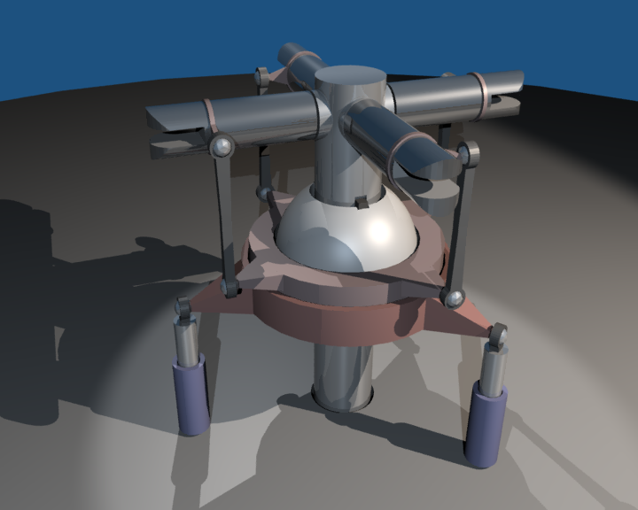 Helicopter swashplate assembly (rotors removed)